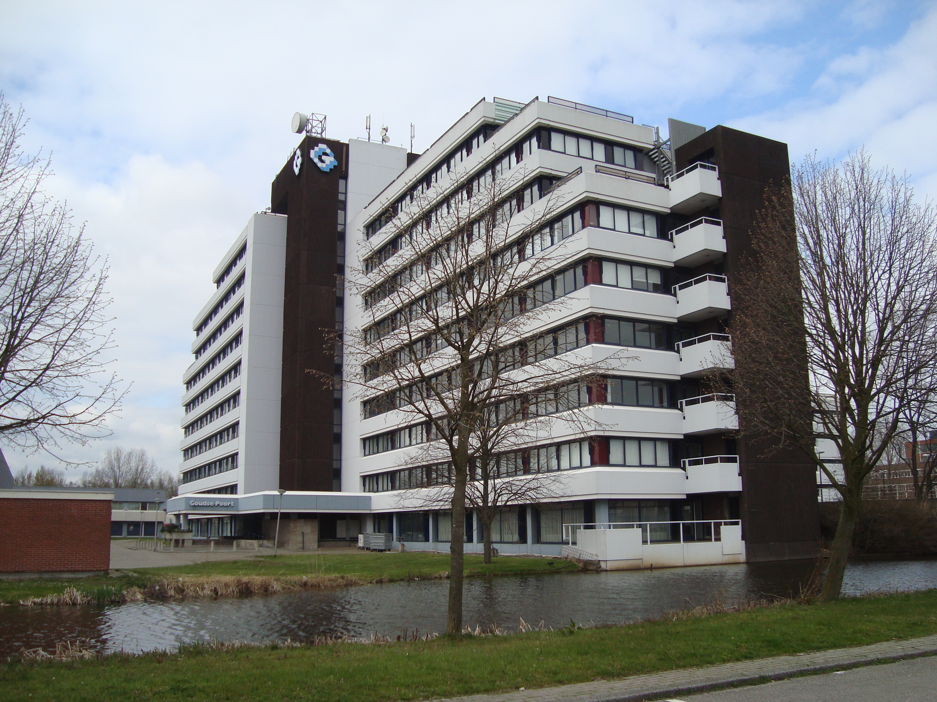 Doesburgweg 7, Gouda